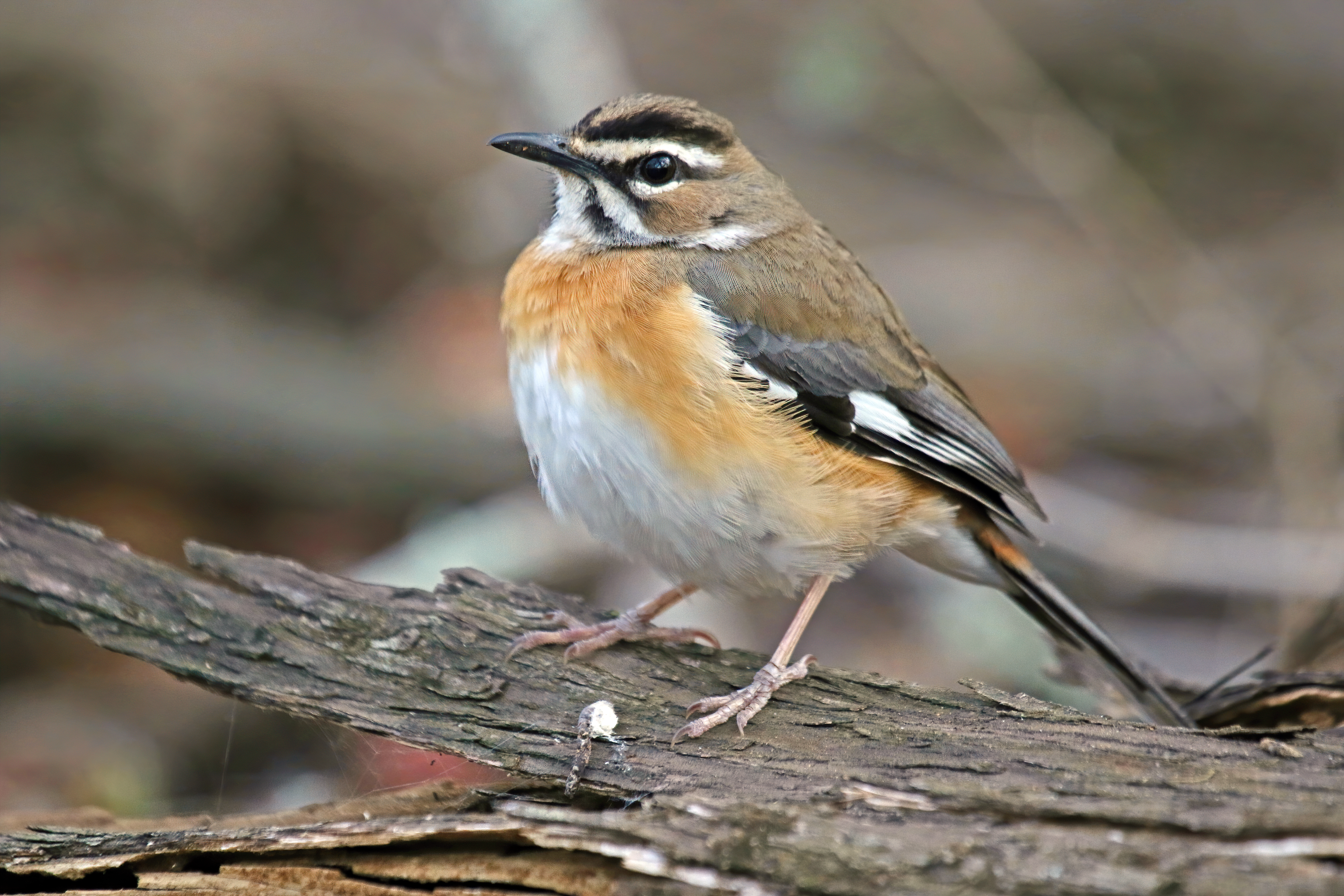 Bearded scrub robin (Cercotrichas quadrivirgata), Phinda Private Game Reserve, KwaZulu Natal